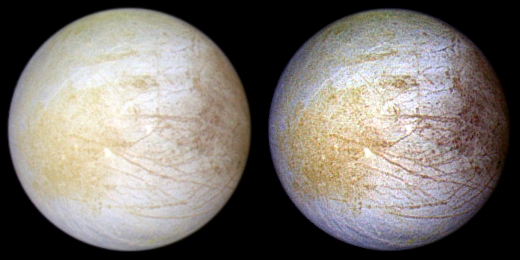 This color composite view combines violet, green, and infrared images of Jupiter's intriguing moon, Europa, for a view of the moon in natural color (left) and in enhanced color designed to bring out subtle color differences in the surface (right). The bright white and bluish part of Europa's surface is composed mostly of water ice, with very few non-ice materials. In contrast, the brownish mottled regions on the right side of the image may be covered by hydrated salts and an unknown red component. The yellowish mottled terrain on the left side of the image is caused by some other unknown component. Long, dark lines are fractures in the crust, some of which are more than 3,000 kilometers (1,850 miles) long. North is to the top of the picture and the sun fully illuminates the surface. Europa is about 3,160 kilometers (1,950 miles) in diameter, or about the size of Earth's moon. The finest details that can be discerned are 25 kilometers across. The images in this global view were taken in June 1997 at a range of 1.25 million kilometers by the Solid State Imaging (SSI) system on NASA's Galileo spacecraft, during its ninth orbit of Jupiter.